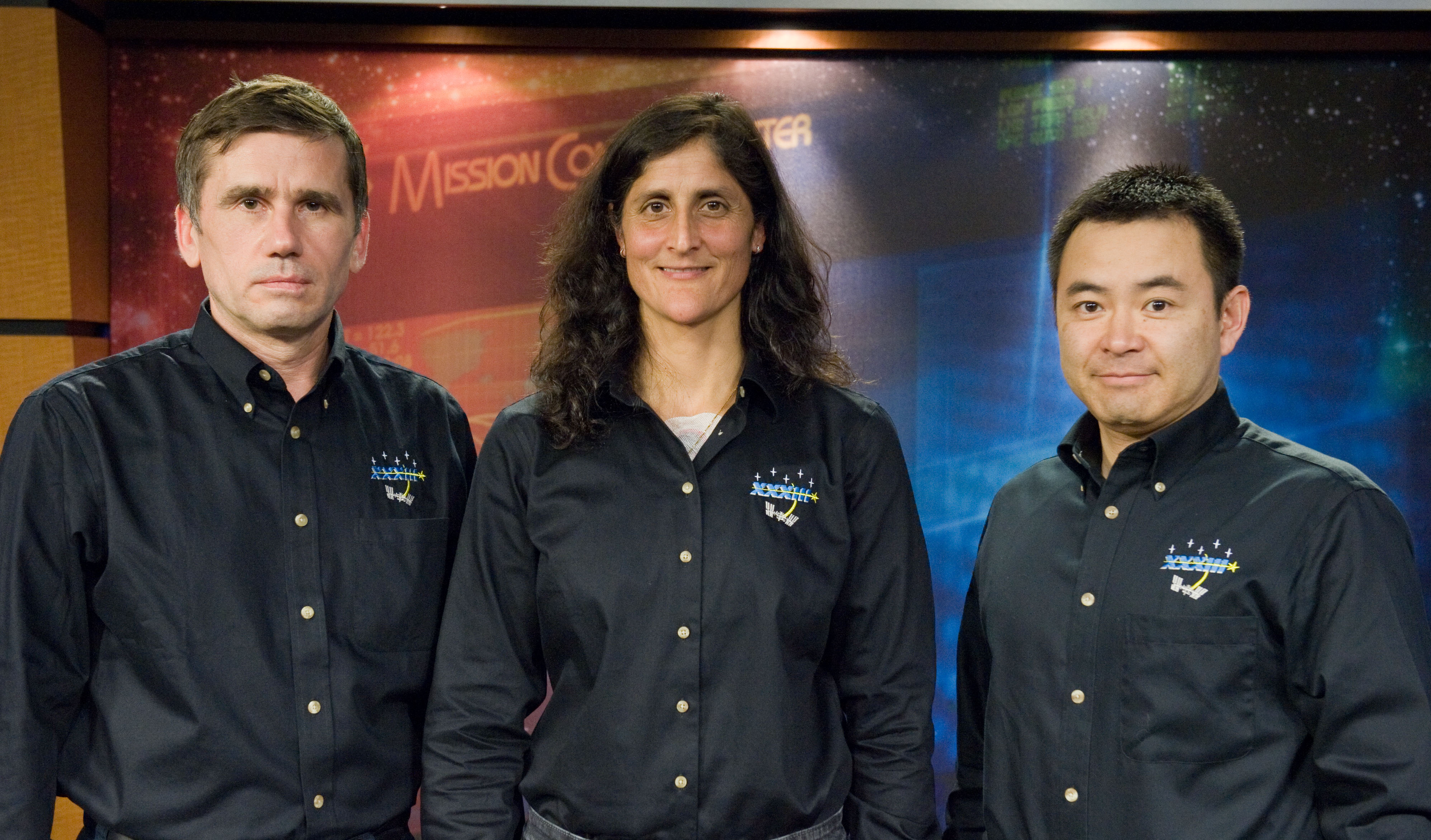 NASA astronaut Sunita Williams, Expedition 32 flight engineer and Expedition 33 commander; along with Russian cosmonaut Yuri Malenchenko (left) and Japan Aerospace Exploration Agency (JAXA) astronaut Akihiko Hoshide, both Expedition 32/33 flight engineers, pose for a portrait following an Expedition 32/33 preflight press conference at NASA's Johnson Space Center.